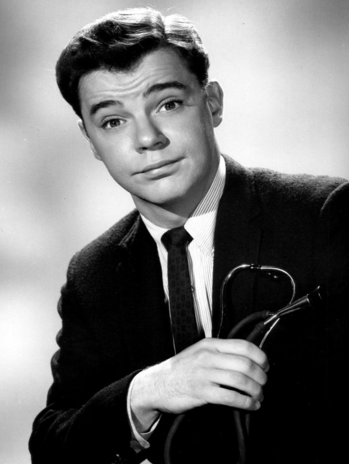 Photo of Warren Berlinger as Larry Barnes, the younger brother of Joey Barnes (Joey Bishop) from the television program The Joey Bishop Show, episode The Ham in the Family (publicity still). He is the nephew of Milton Berle (brother's son-original name was Berlinger).